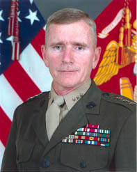 Lieutenant General Gregory S. Newbold, United States Marine Corps Source: Official Marine Corps biography. Retrieved on November 19, 2006.